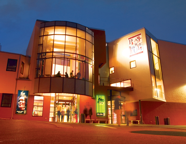 A look at the Cincinnati Playhouse in the Park at night.